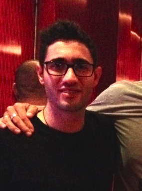 3lau cropped photo